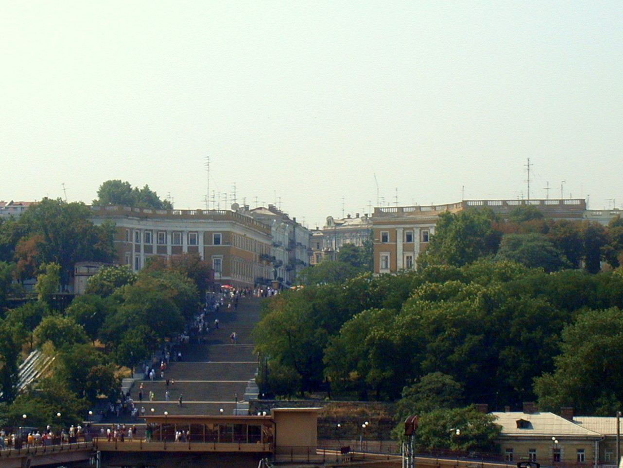 The Potemkin Stairs in Odessa, Ukraine Cropped and colour corrected from original Camera: Olympus C2000Z License on Flickr (2011-01-08): CC-BY-2.0 Flickr tags: Odessa, Ukraine, Marco Polo, Public